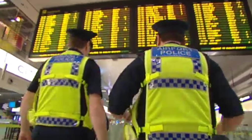 Airport Police Officers on the beat in Dublin Airport